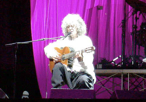 Angelo Branduardi in concert - Naples, Italy